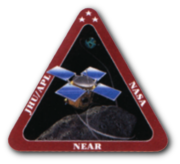 Official mission insignia of the NEAR Shoemaker mission.